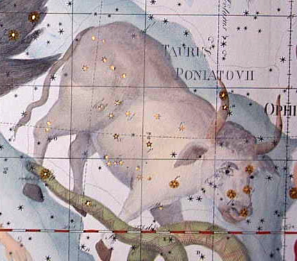 Taurus Poniatovii (hand colored)